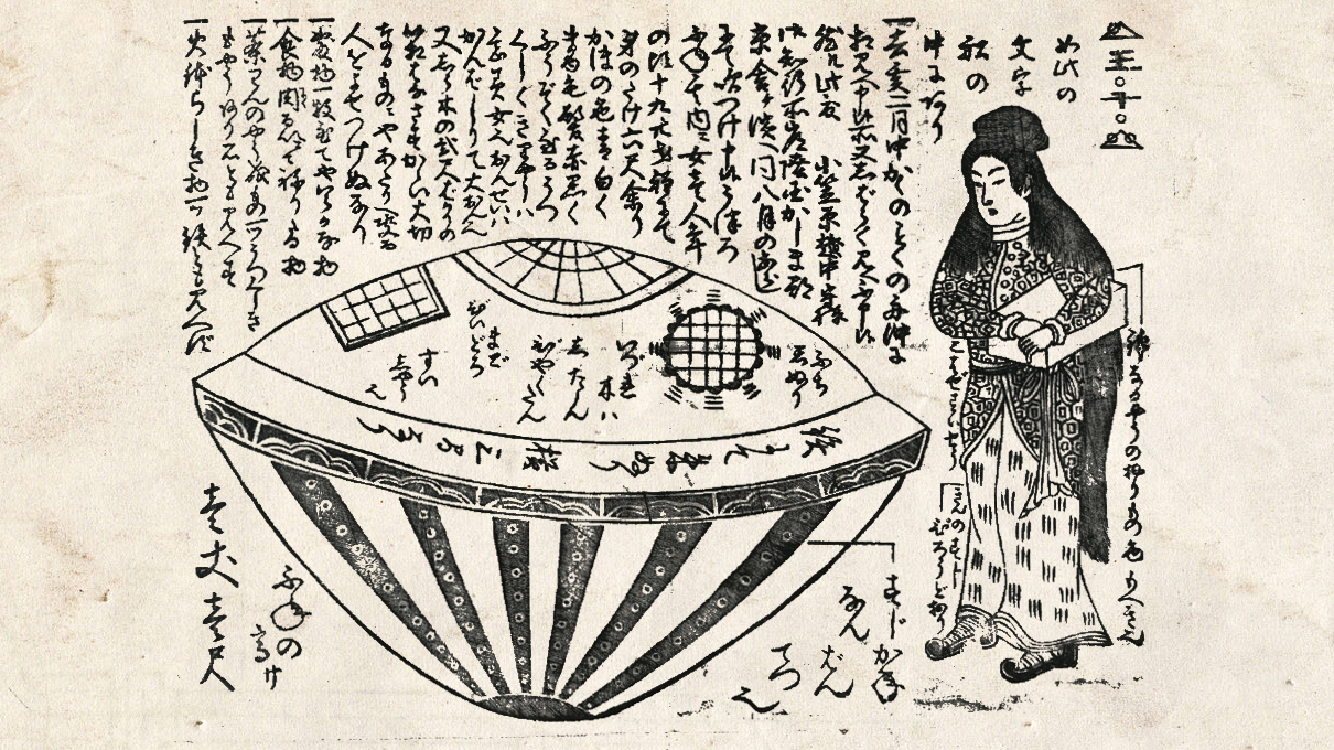 Utsuro-bune (jap. for "Hollow ship")